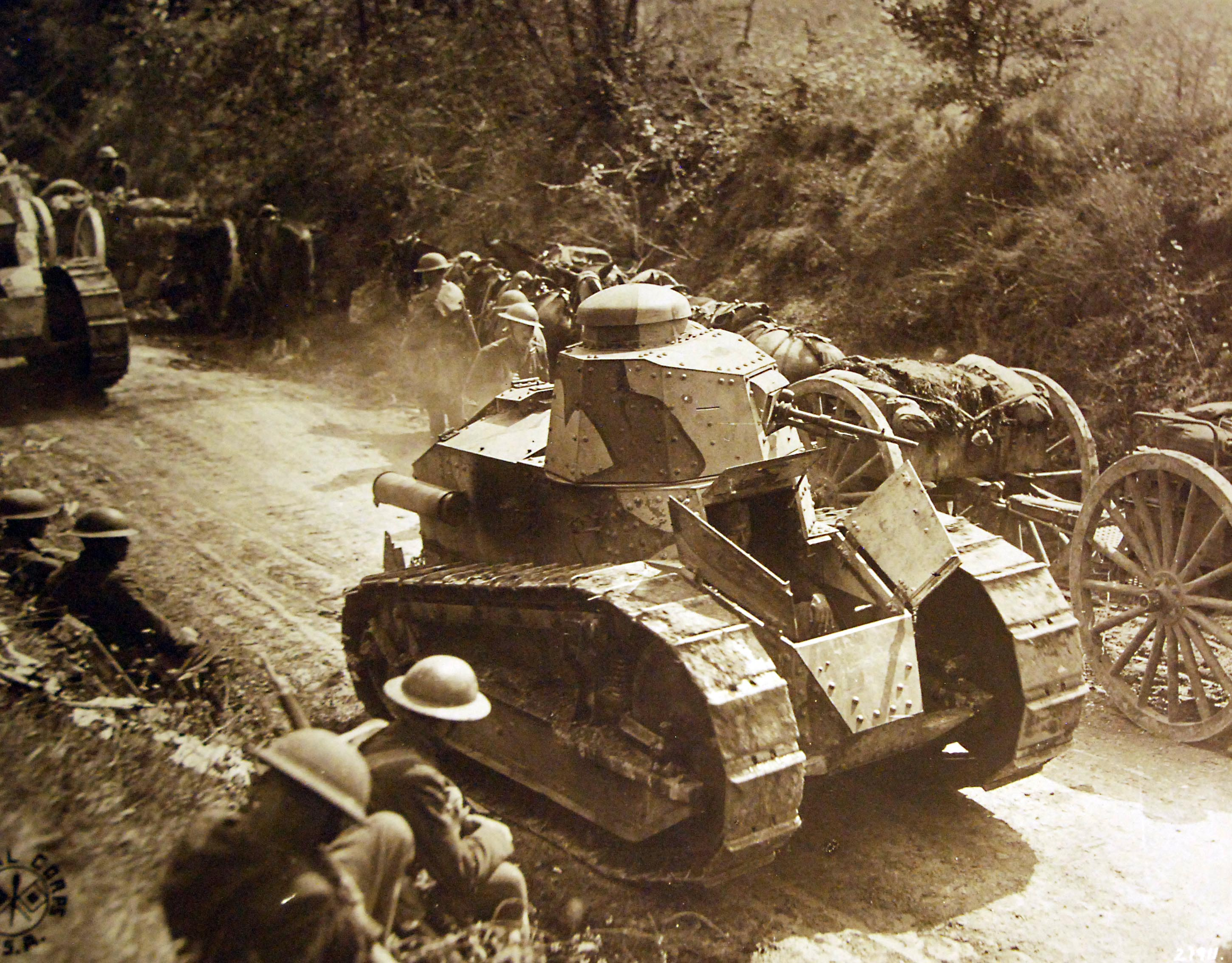 Lot-7868-8: WWI, Activities in France. The Tanks at Juvigny, France, probably a Renault FT. U.S. Army Signal Corps Portfolio of Official War Photographs. Courtesy of the Library of Congress. (2016/07/29).